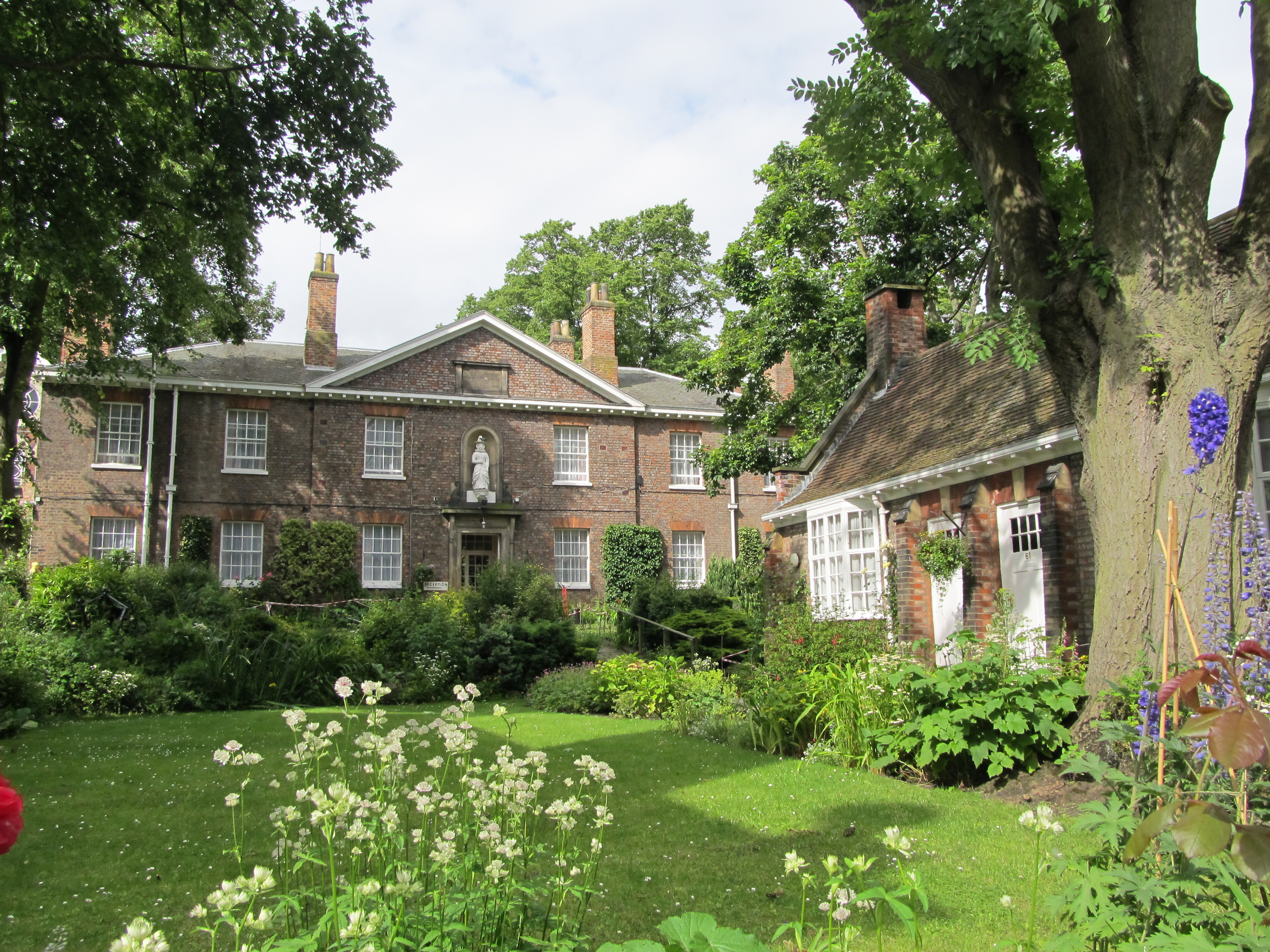 Sir Joseph Terry Almshouses, York